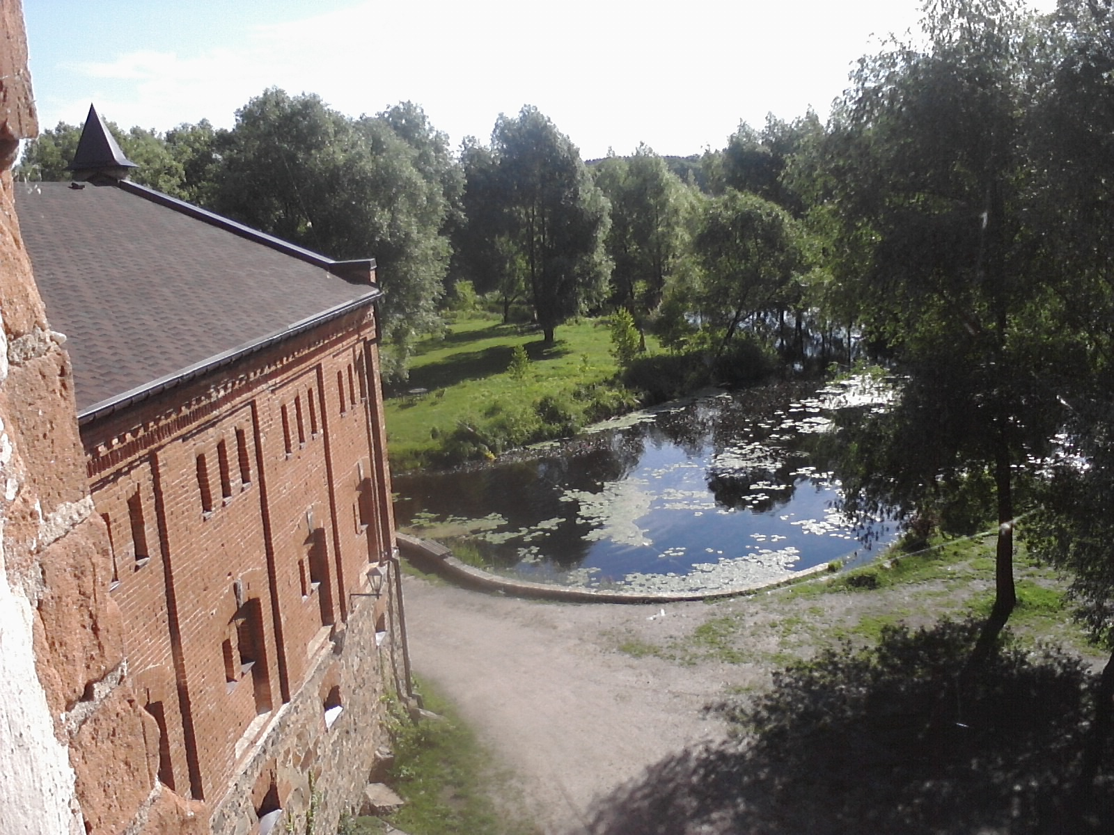 Zamek Radomyśl. Widok z okna na park krajobrazowy.